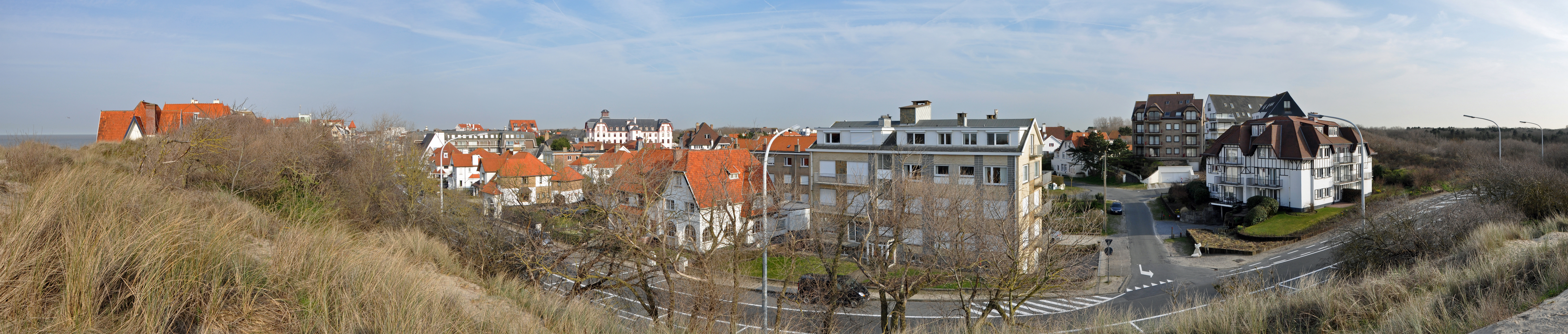 De Haan (Belgium): panorama